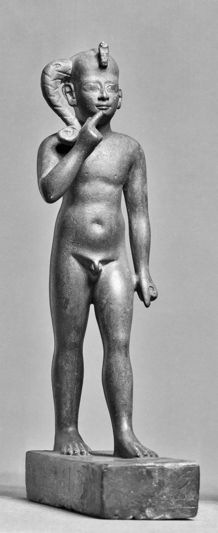 Harpocrates or "Horus the Child" was the son of Isis and Osiris. He represents legal kingship as mythical successor of his father Osiris, who, in death, became Lord of the Netherworld. He was especially popular in the Late and Greco-Roman periods. Representations such as this show him as a nude boy with his finger to his mouth, and a sidelock of hair, the symbols of childhood. Here he also has a uraeus (a cobra serpent) above his forehead, symbolizing his entitlement to kingship.